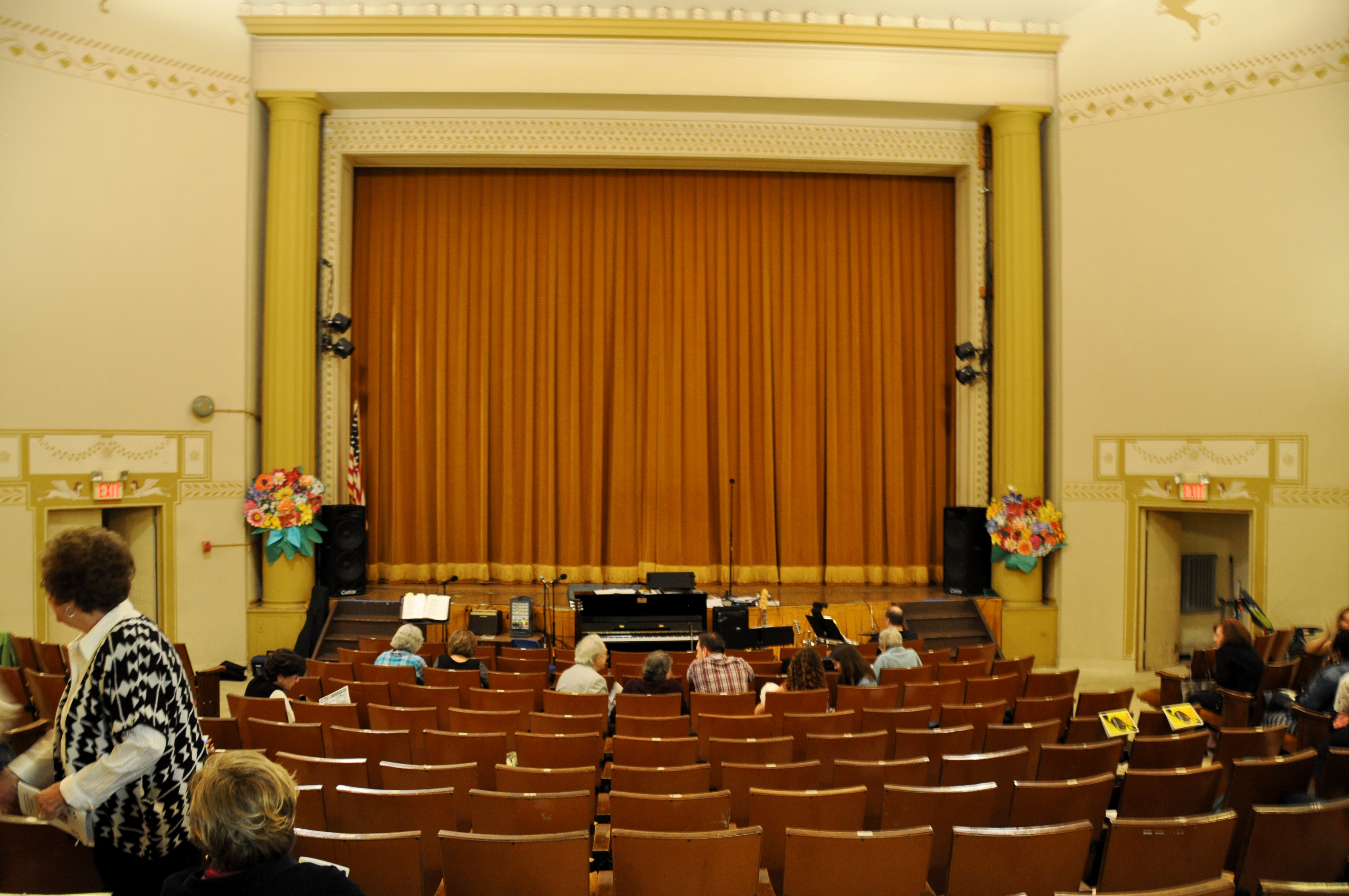 The Julie Harris Theater of The Clear View School in Briarcliff's Scarborough. Taken May 30, 2014.